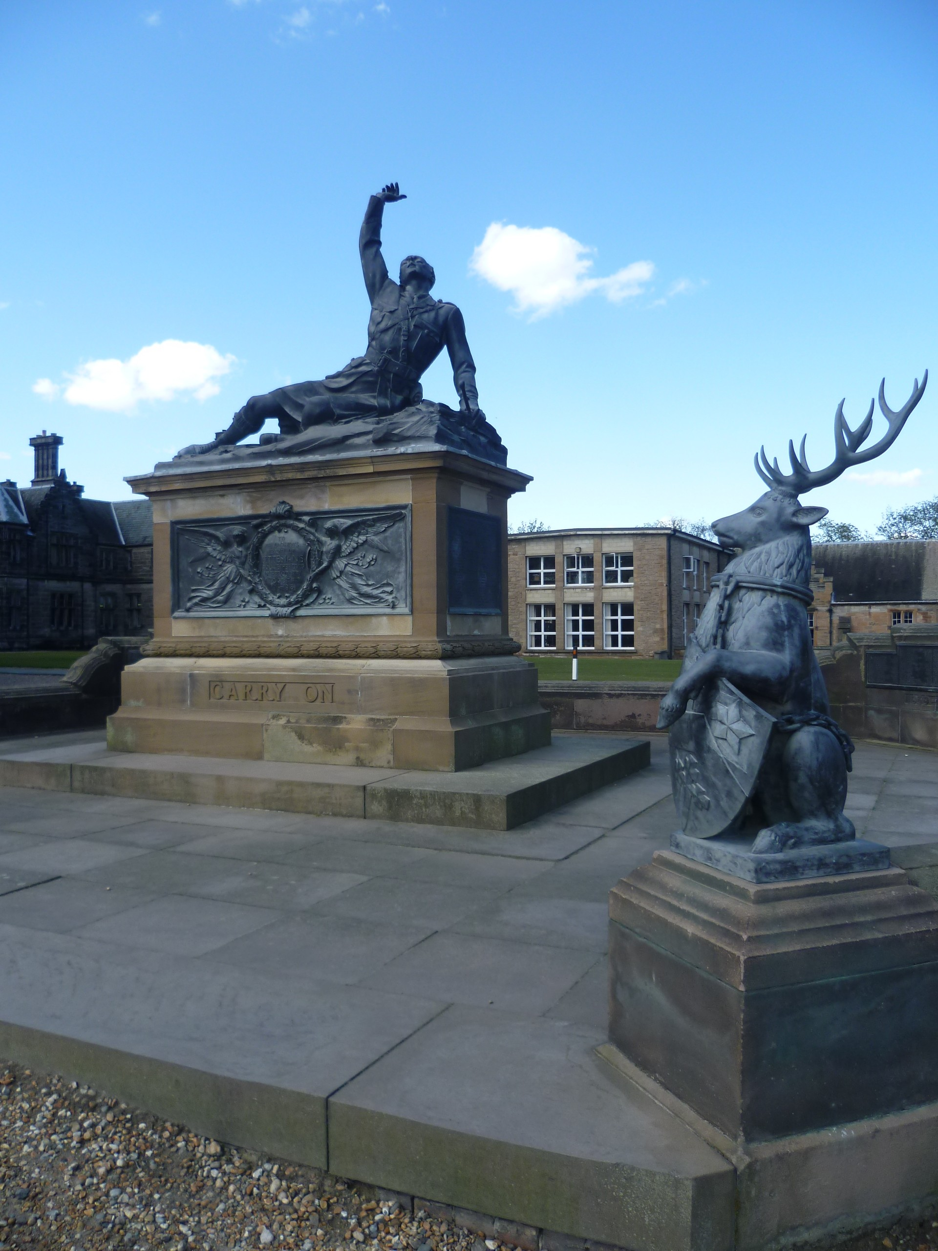 Fettes College War Memorial by Birnie Rhind